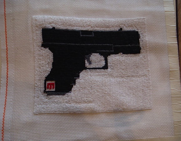 Guns, Birds and Words